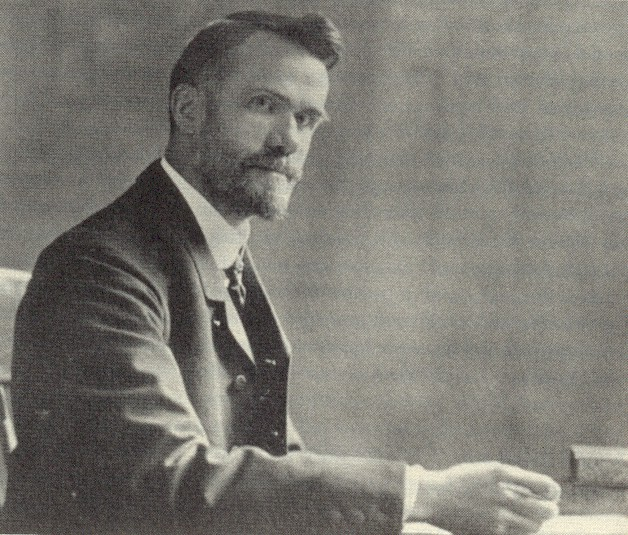 Walter Rauschenbusch